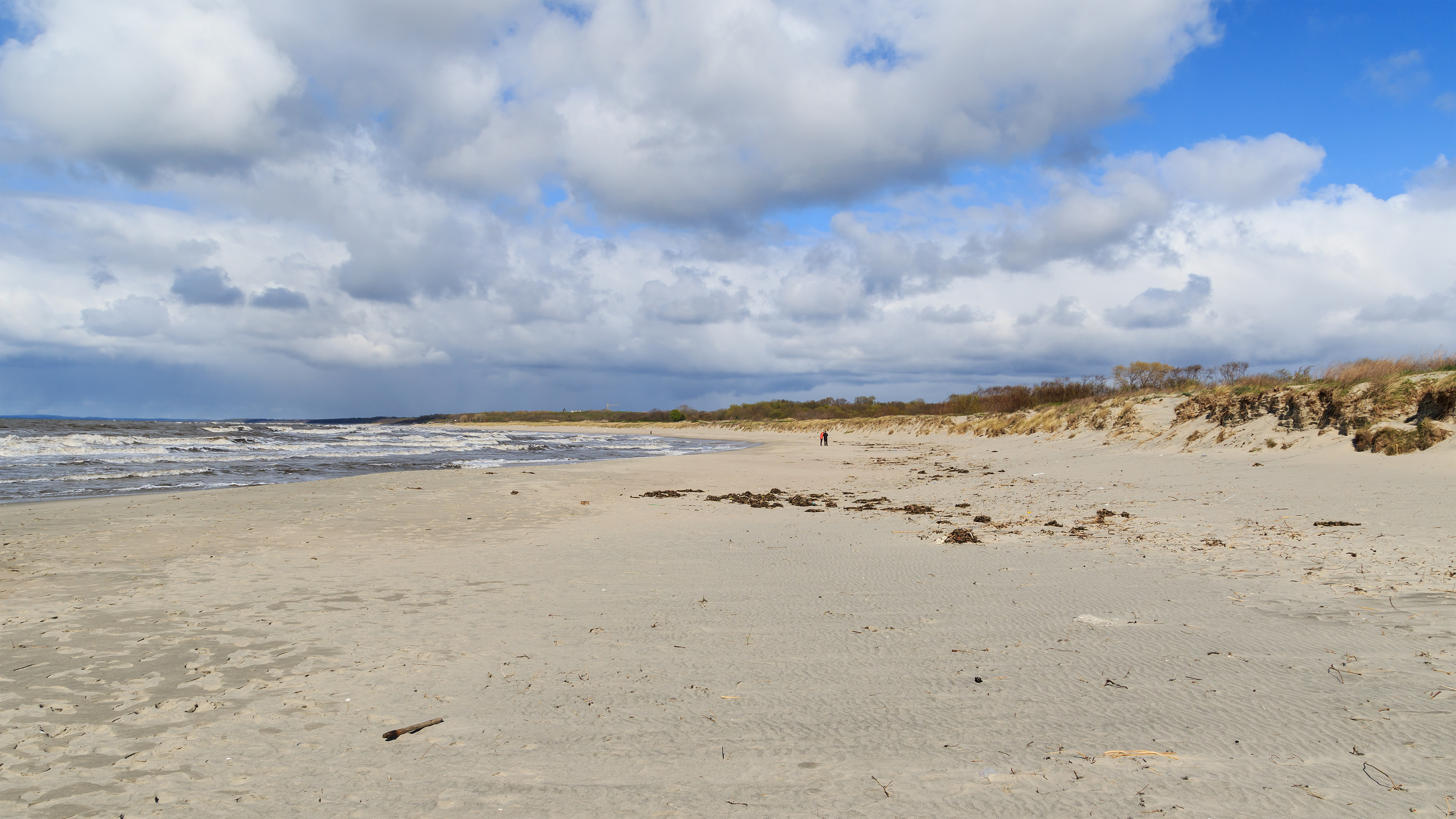 Beach in Baltiysk formerly Pillau / Kaliningrad Oblast (Russia).